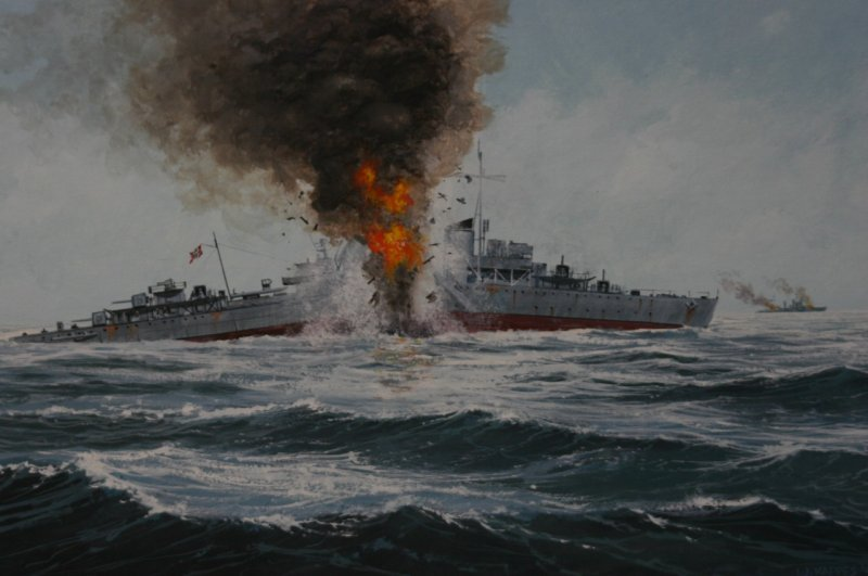 Painting of the Battle of the Barents Sea, World War II. The ship depicted is the German destroyer Friedrich Eckoldt.